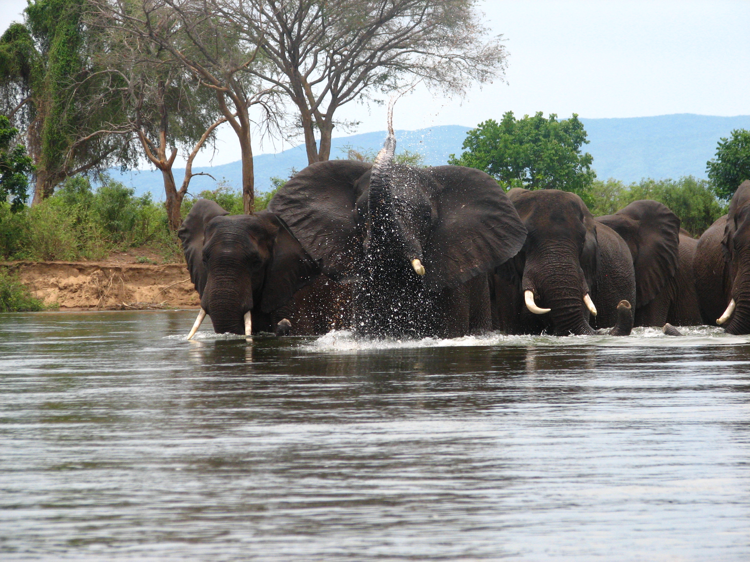 Zambezi – Elephants crossing the river 12.11.2009